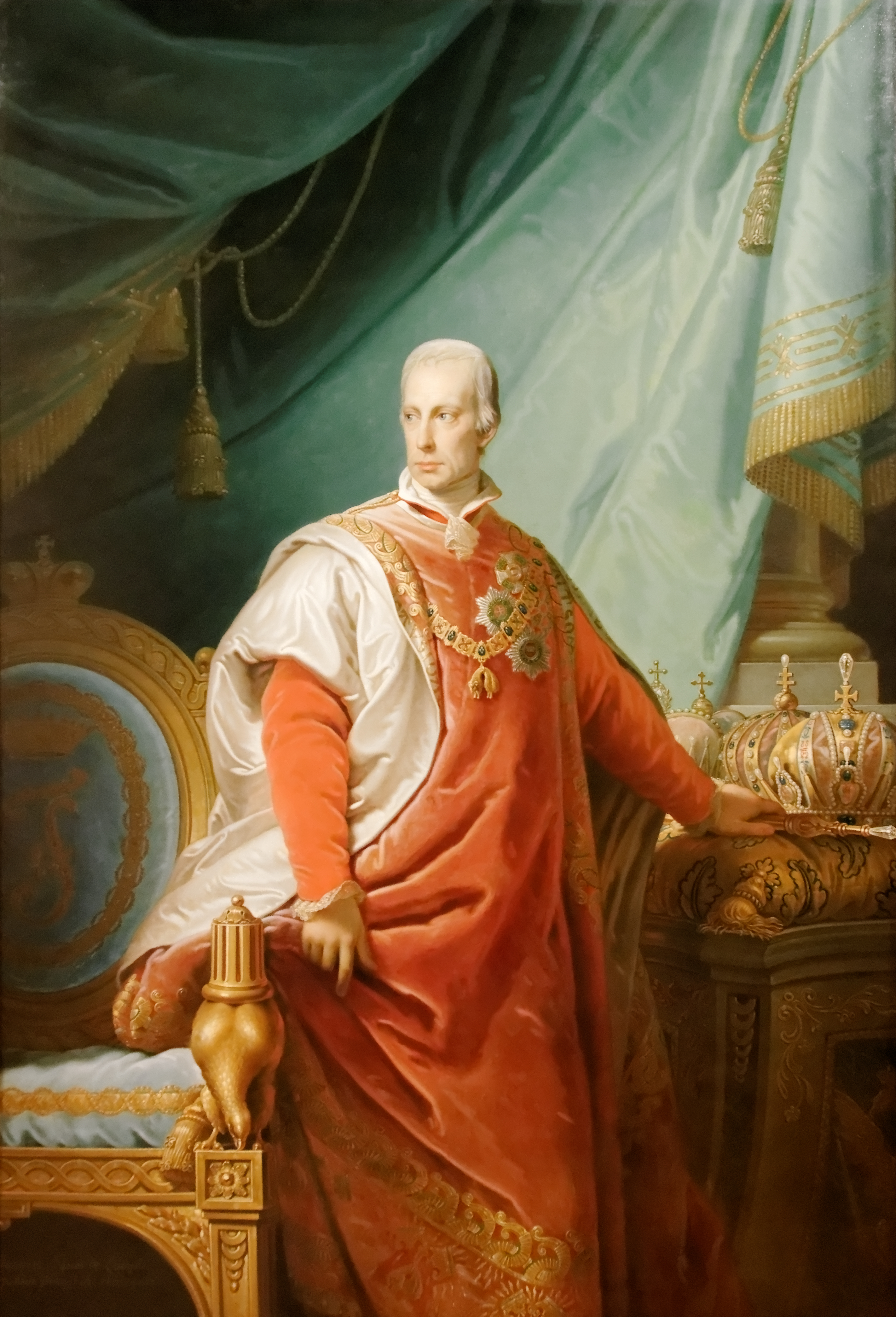 Portrait of Francis I of Austria, formerly Francis II, Holy Roman Emperor